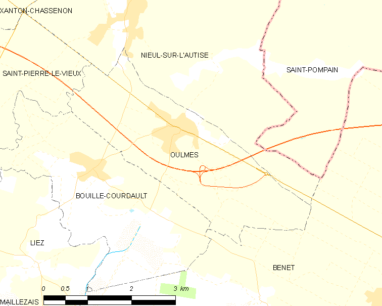 Map of French municipality Oulmes